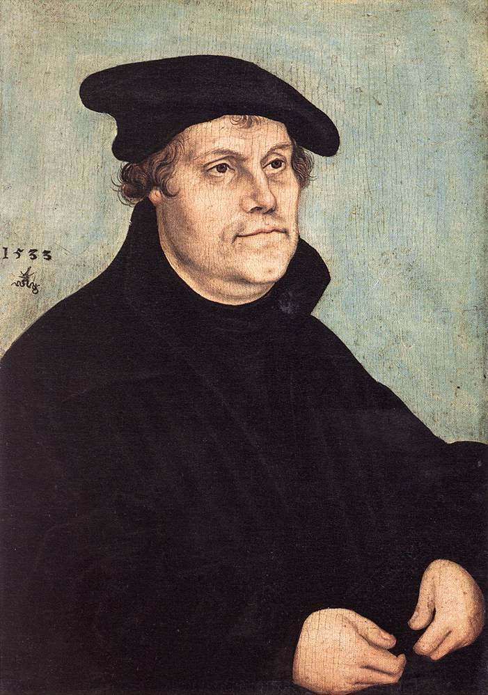 Martin Luther at the Age of 50